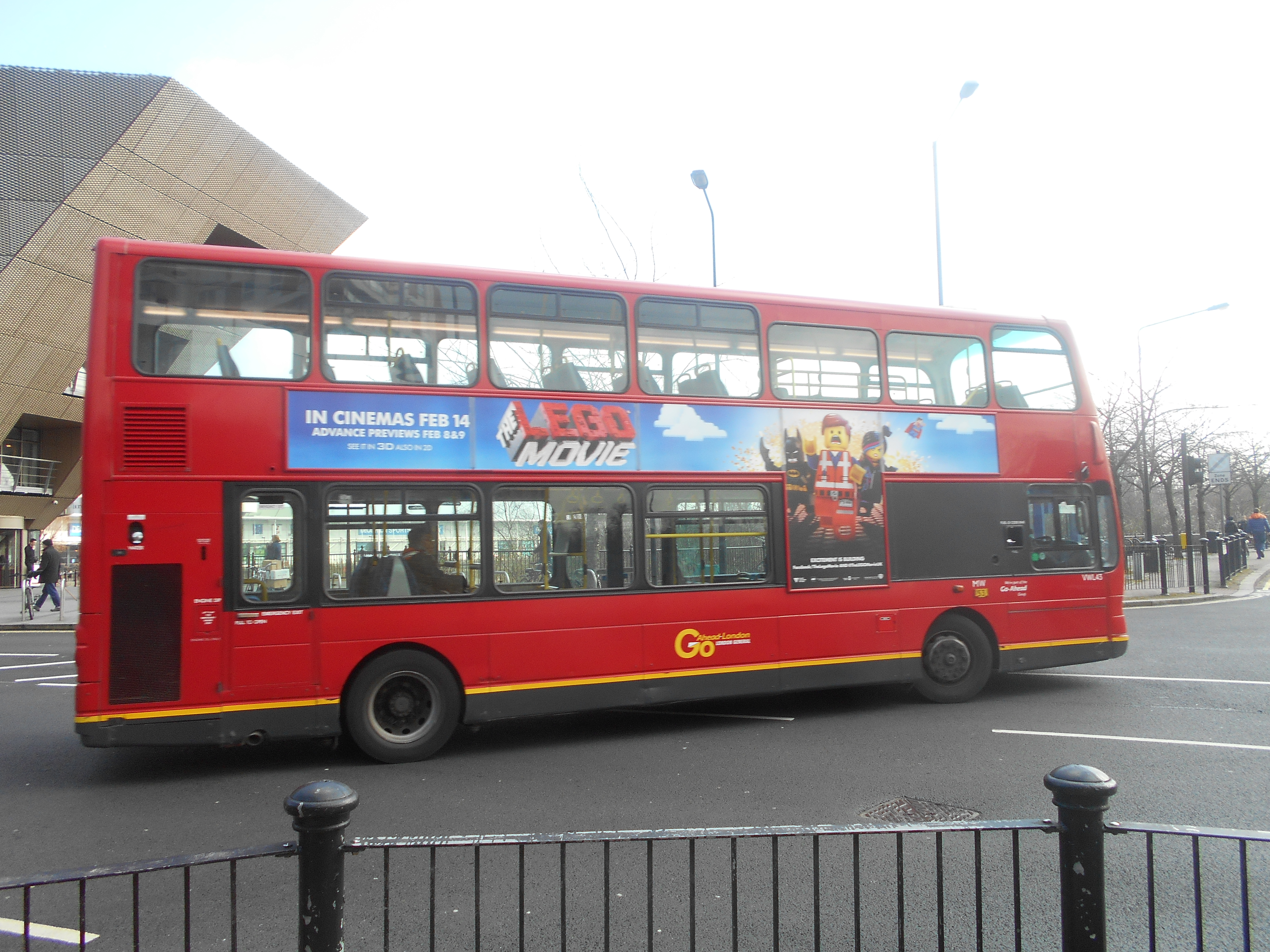 A London Bus with an advert for the Lego Movie.